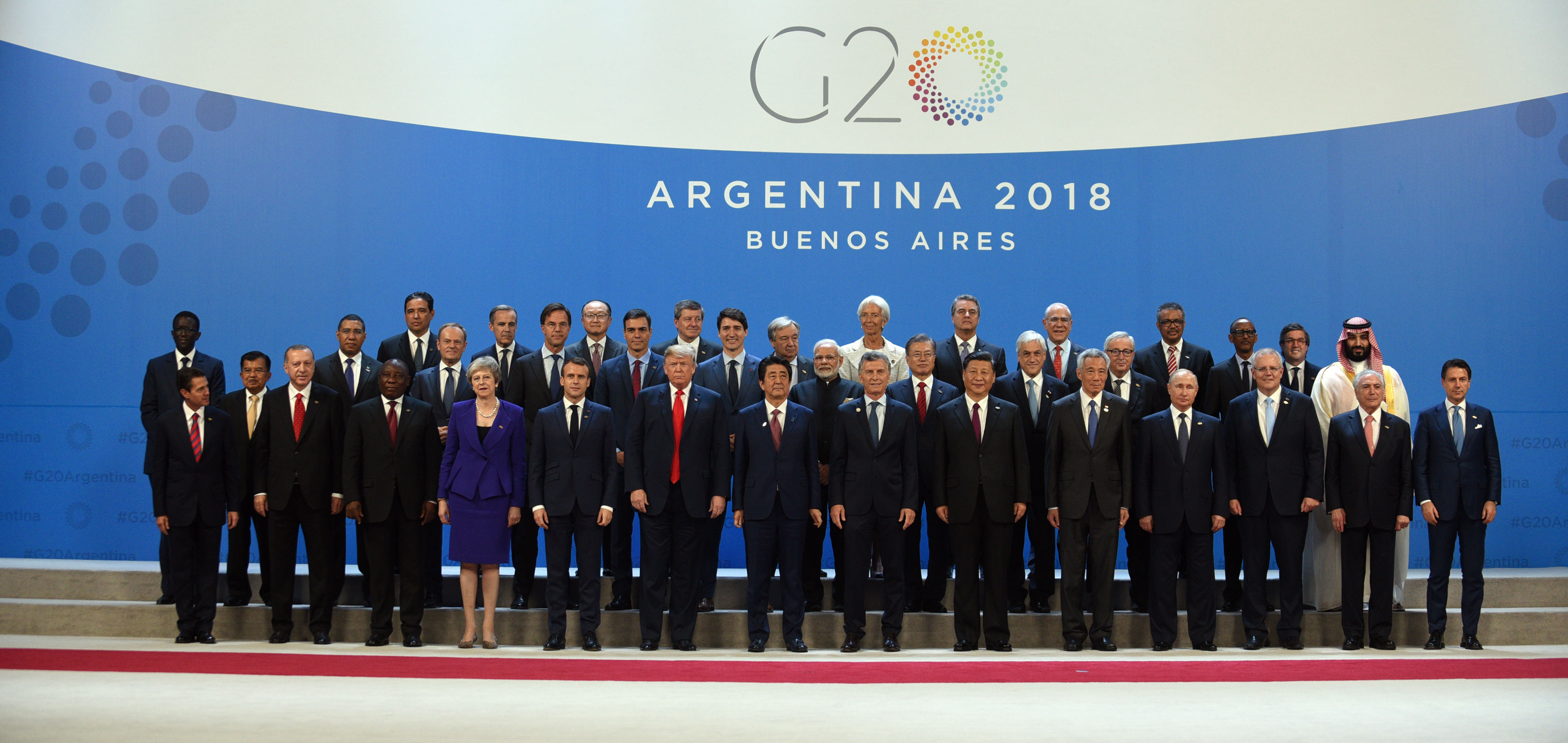 G20 Argentina 2018 group photo